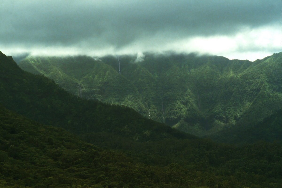 It is one of the wettest spots on Earth